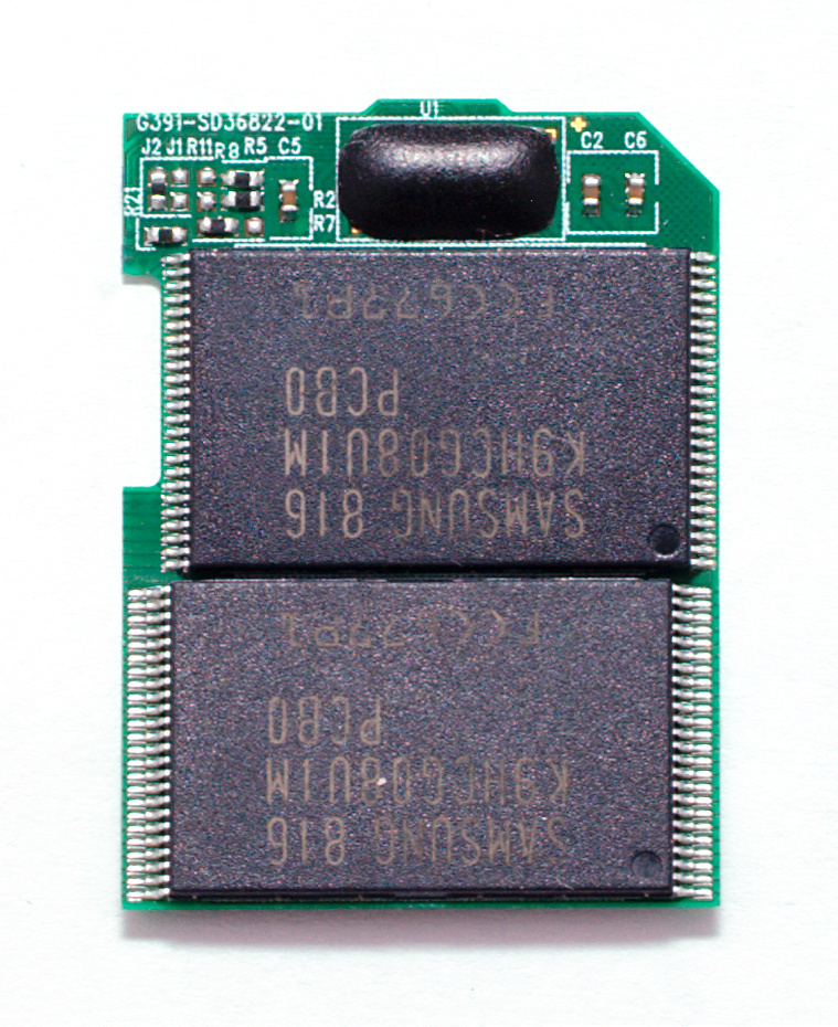 SDHC card (Pretec, 16GB) without cover